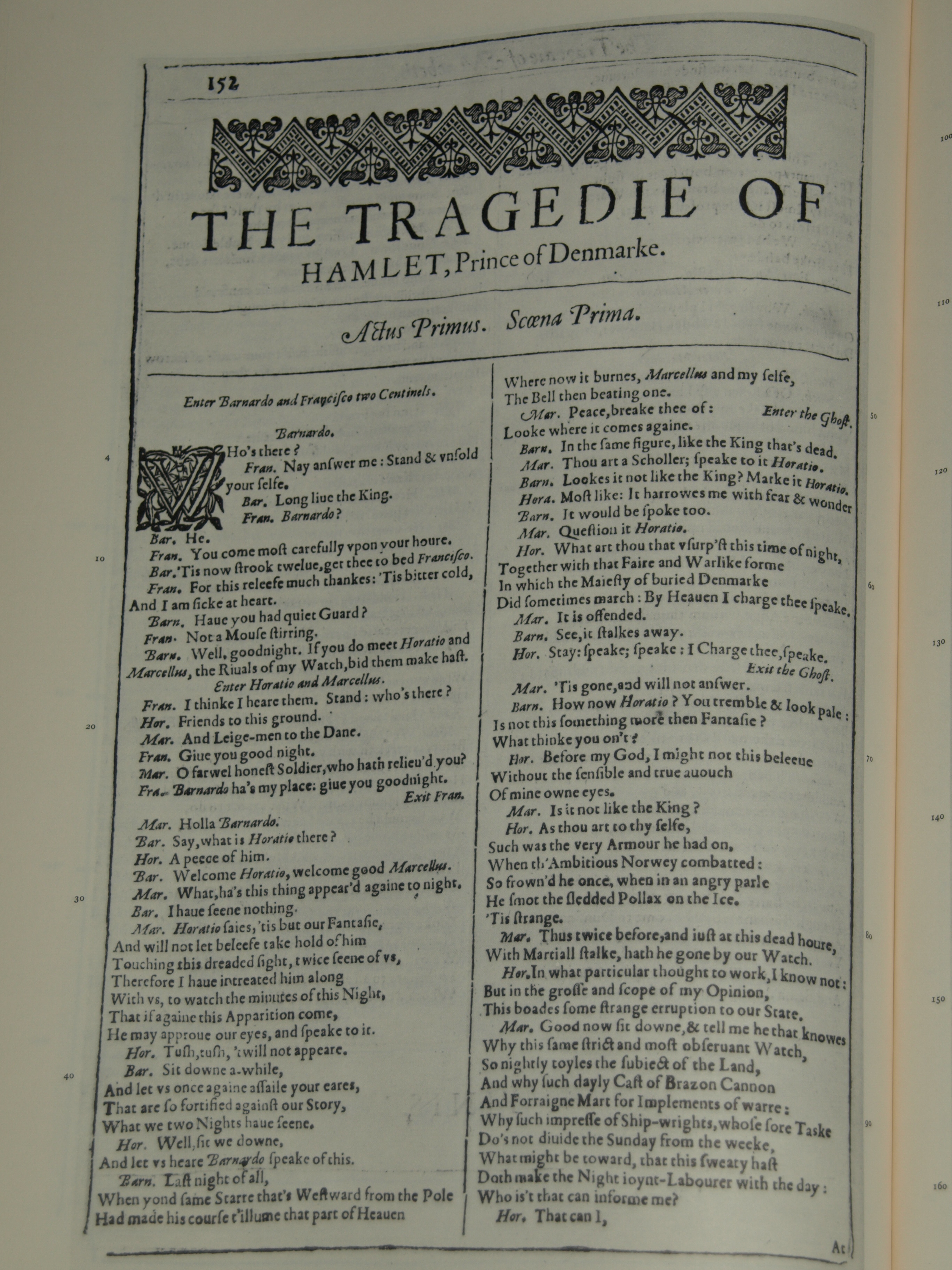 Photo of the first page of Hamlet from a facsimile edition of the First Folio of Shakespeare's plays, published in 1623